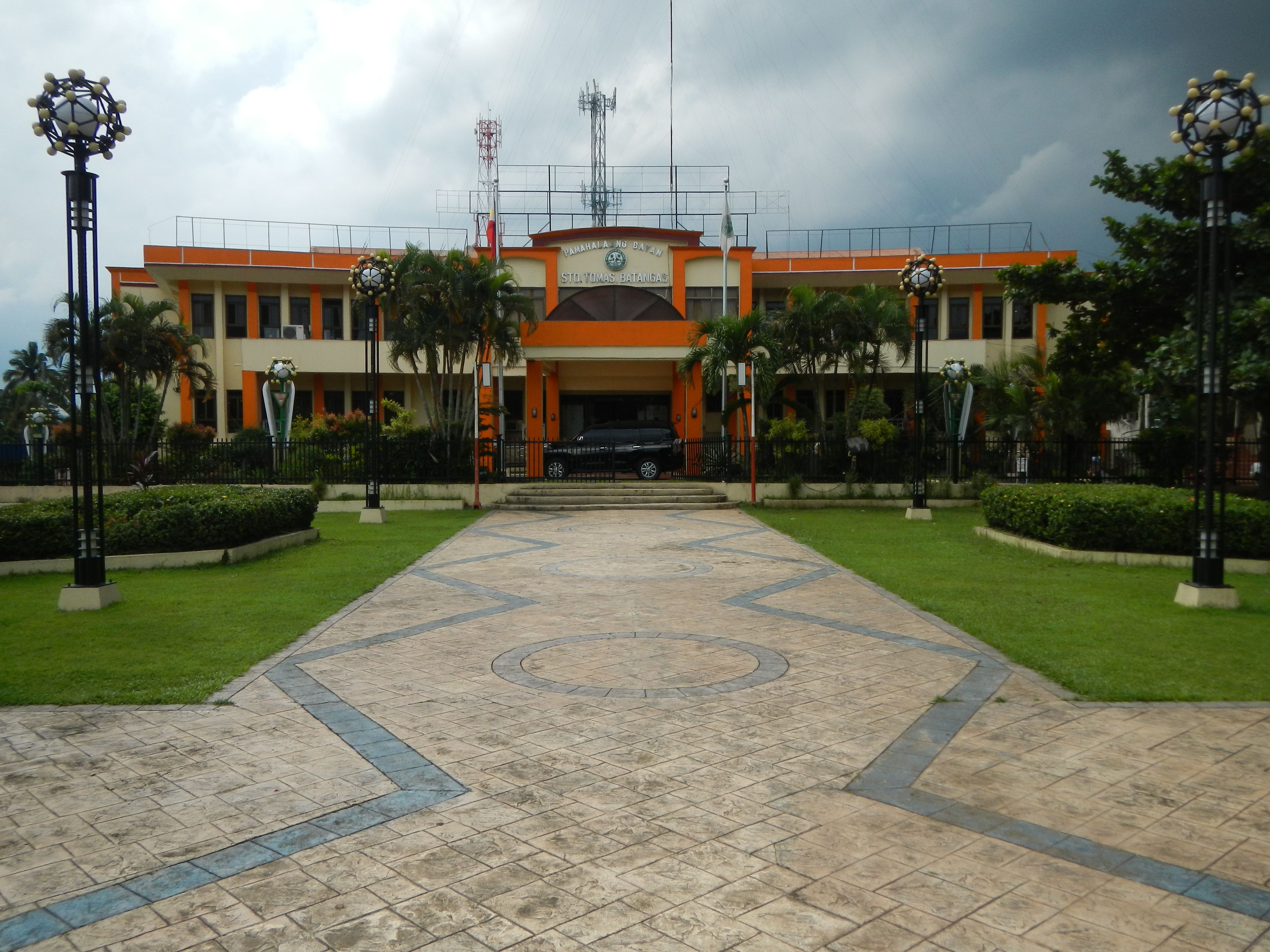 Sto.Tomas Municipal[1] Coordinates: 14°6'38"N 121°8'32"E & Miguel Malvar[2] beside and in front of the Shrine in the Town Hall of Santo Tomas[3] Miguel Malvar Museum and Library: Of Battles and Surrender – Sto. Tomas, Batangas, Philippines [4] Miguel Malvar: The Story of the Great Batangueño General -- Located in the compound of the Sto. Tomas municipal hall is the Miguel Malvar Historical Landmark (MHL). The shrine (and public library) is under the National Historical Commission of the Philippines.[5] [6] Gen. Miguel Malvar Park Coordinates: 14°6'37"N 121°8'33"E - List of Cultural Properties of the Philippines in CALABARZON [7] PH-40-0004 Miguel Malvar Monument 14°06′37″N 121°08′34″E Cultural [8] [9] Santo Tomas, Batangas[10] Website Santo Tomas (also spelled as Sto. Tomas) is a first class municipality in the province of Batangas,[11] Philippines. According to the 2010 census, it has a population of 123,668 people. The town is a gateway to the province from Laguna hometown of Philippine Revolution and Philippine-American War hero Miguel Malvar.[12] The patron of Santo Tomas is Saint Thomas Aquinas,[13] patron of Catholic schools celebrates his feast day every 7 March.Election Results 2013 Santo Tomas mayoral bet Edna Sanchez accused of vote-buying [14] Coordinates: 14°3'44"N 121°10'24"E Geographical location: Batangas, Region 4, Philippines, Asia Geographical coordinates: 14° 6' 33" North, 121° 8' 31" East This place is situated in Batangas, Region 4, Philippines, its geographical coordinates are 14° 6' 33" North, 121° 8' 31" East and its original name (with diacritics) is Santo Tomas. [15]